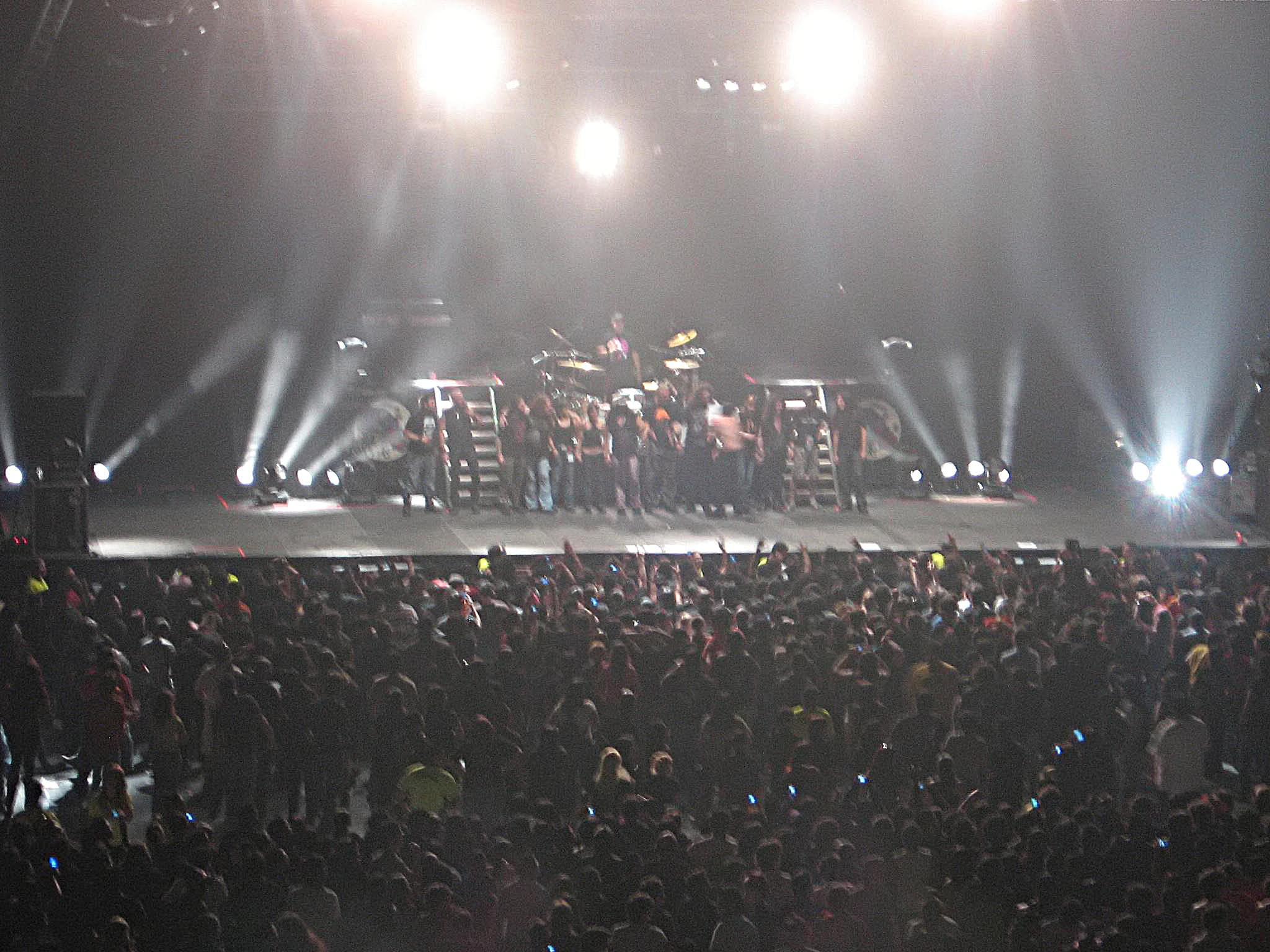 Spanisch Heavy Metal band Mägo de Oz in Monterrey, Mexico on June 1, 2008